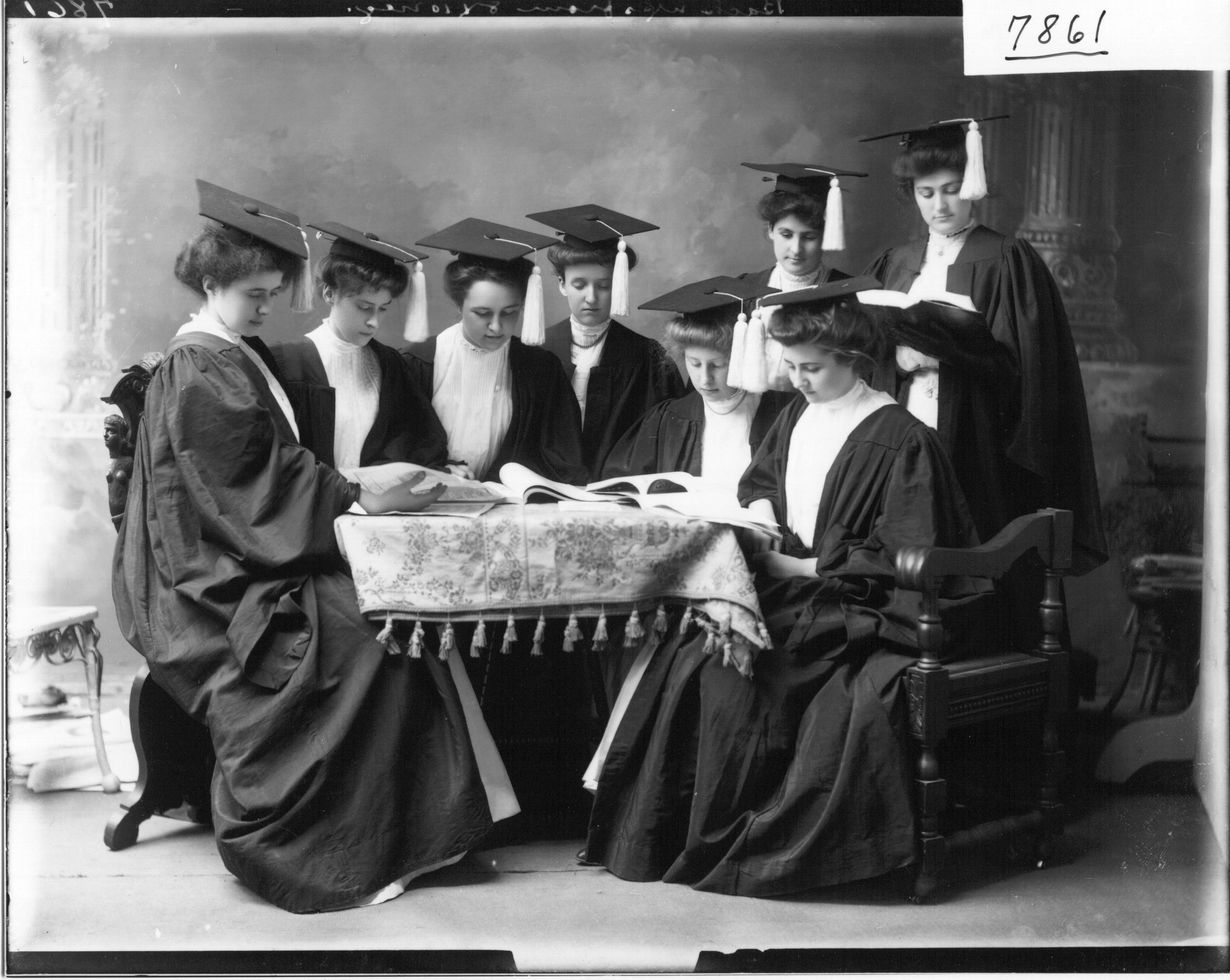 Persistent URL: Subject (TGM): Women's Education; Group portraits; Location: Oxford, Ohio Women in caps and gowns.